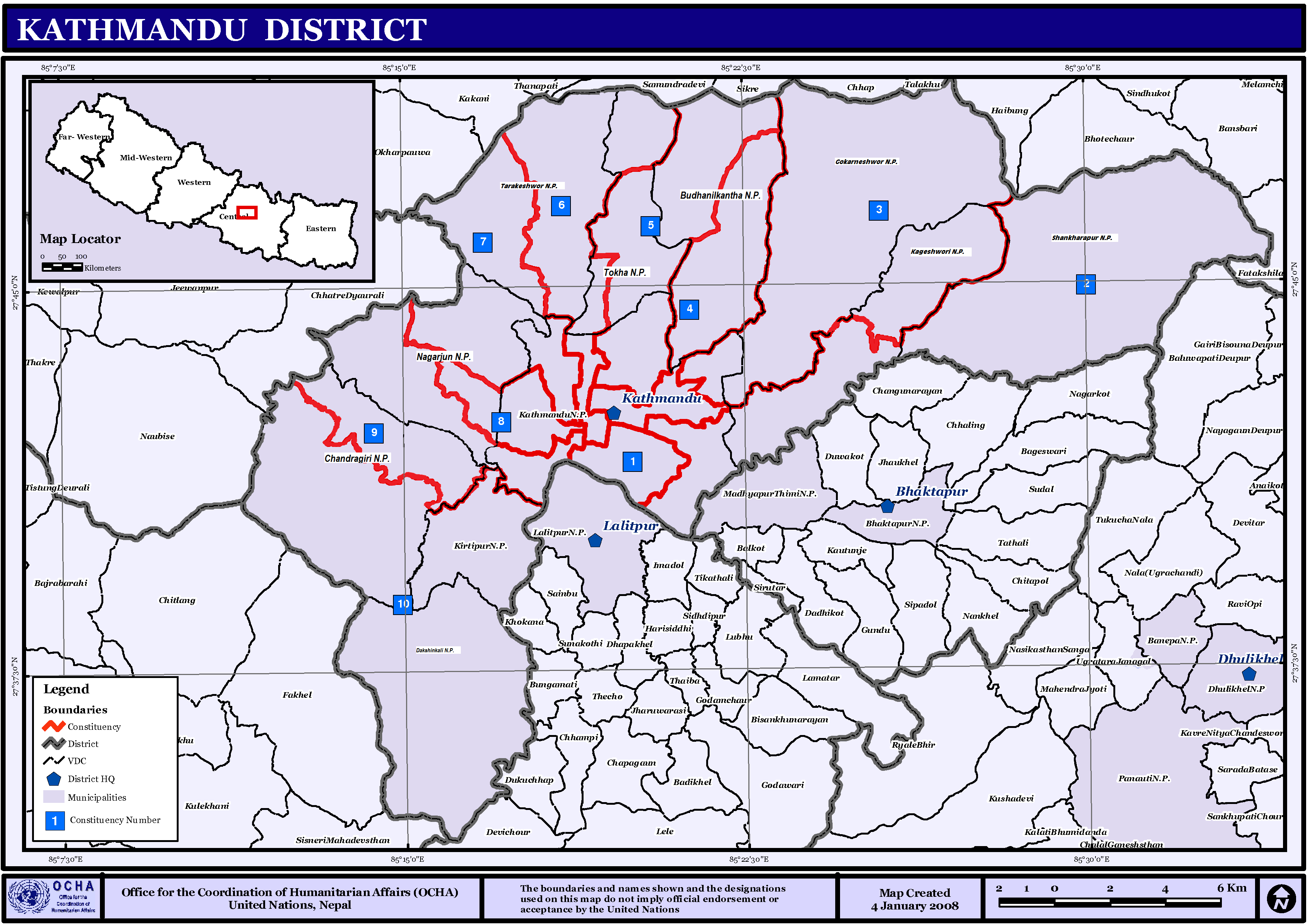 Map displaying Village Development Committees in Kathmandu District, Nepal